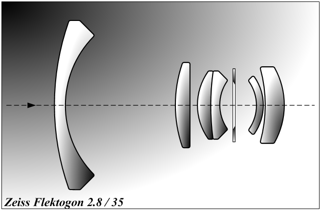 Flektogon lens.